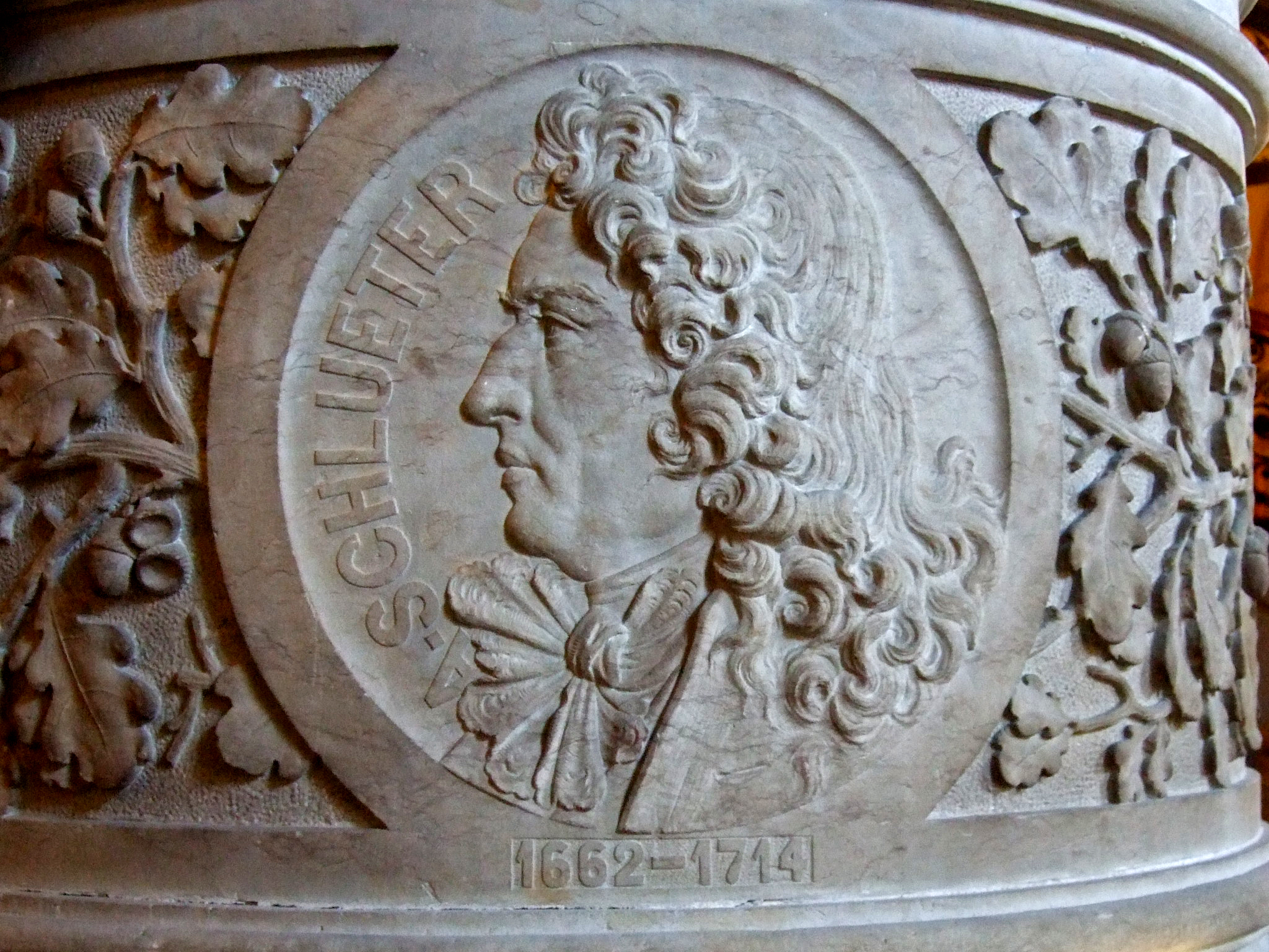 Medallion-shaped relief depicting Andreas Schlüter in the entrance hall of Hamburg's City Hall, ca.1890.